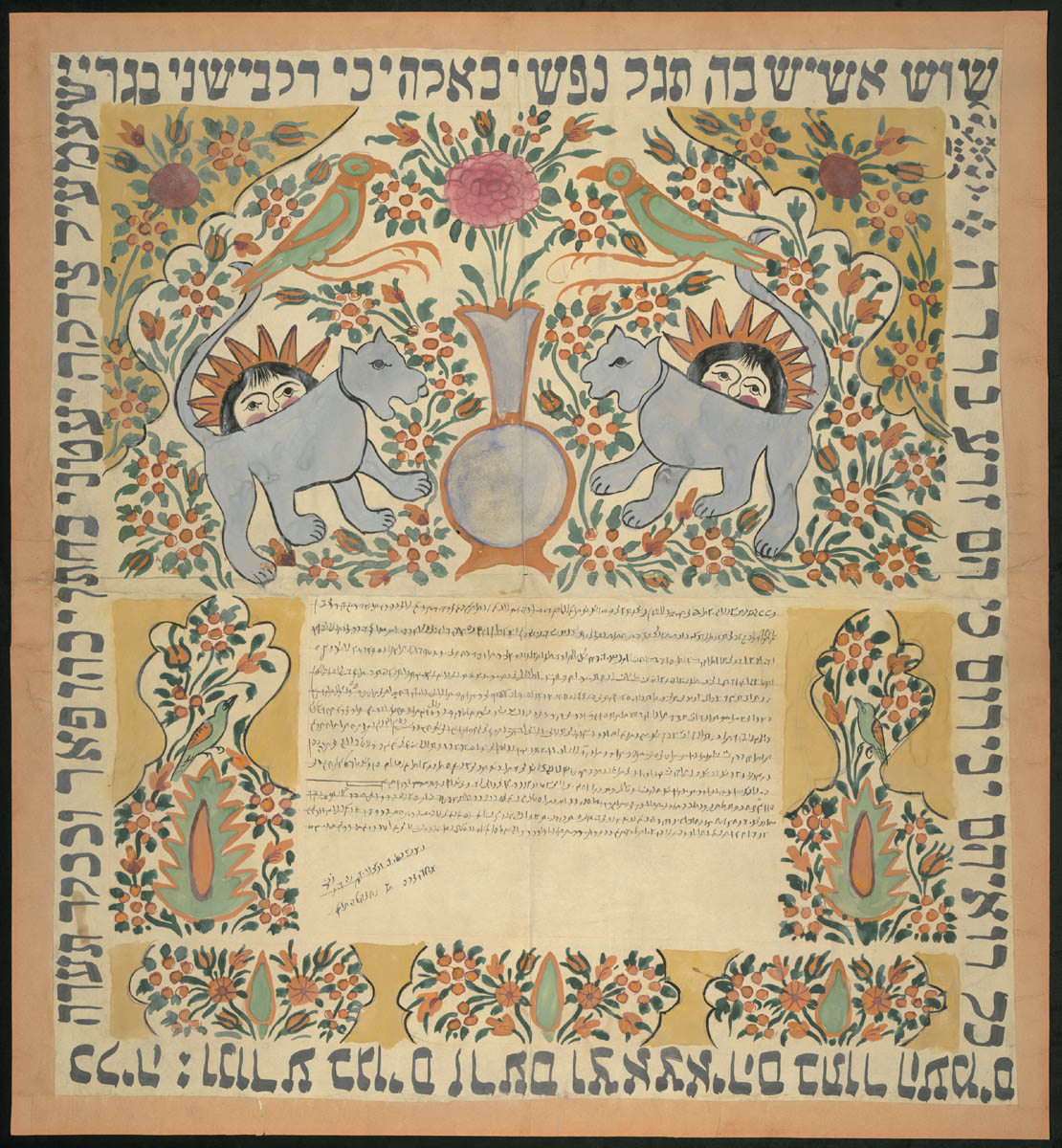 Ketubbah from Isphahan(?), Persia, 1840s